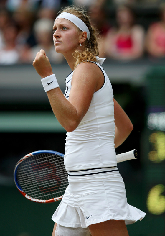 Czech tennis player Petra Kvitova in the final match at the 2011 Wimbledon against Maria Sharapova